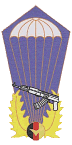 Corps badge (Replica) of the National People's Army parachute troops "40th Air Assault Regiment”, as symbol of theFallschirmjäger-Traditionsverband Ost e.V.. Until 1990 on the original badge there was the GDR Hammer and Circle symbol over the Black-red-gold instead of the wings.